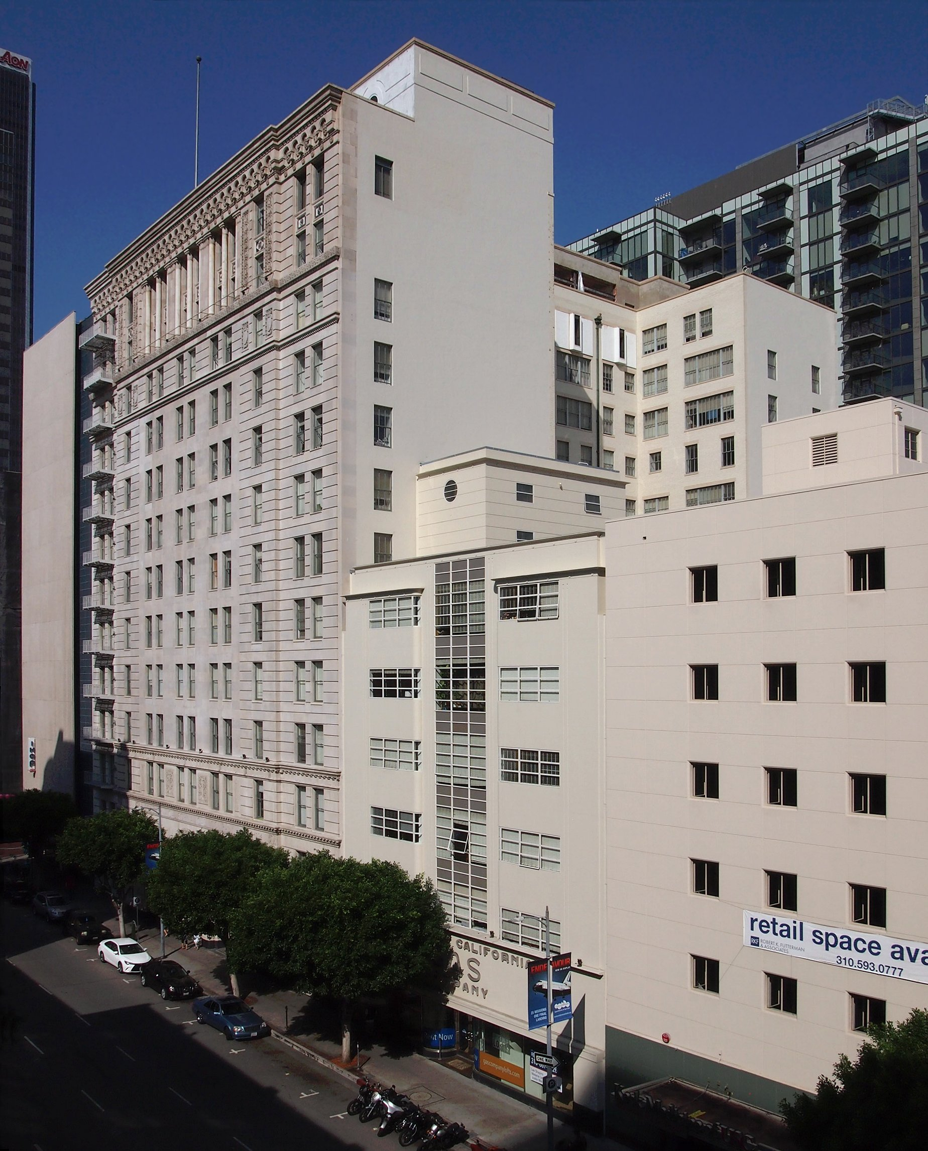 Southern California Gas Company Complex, 800, 810, 820, and 830 S Flower St, Los Angeles, California, USA. Viewed from the west.